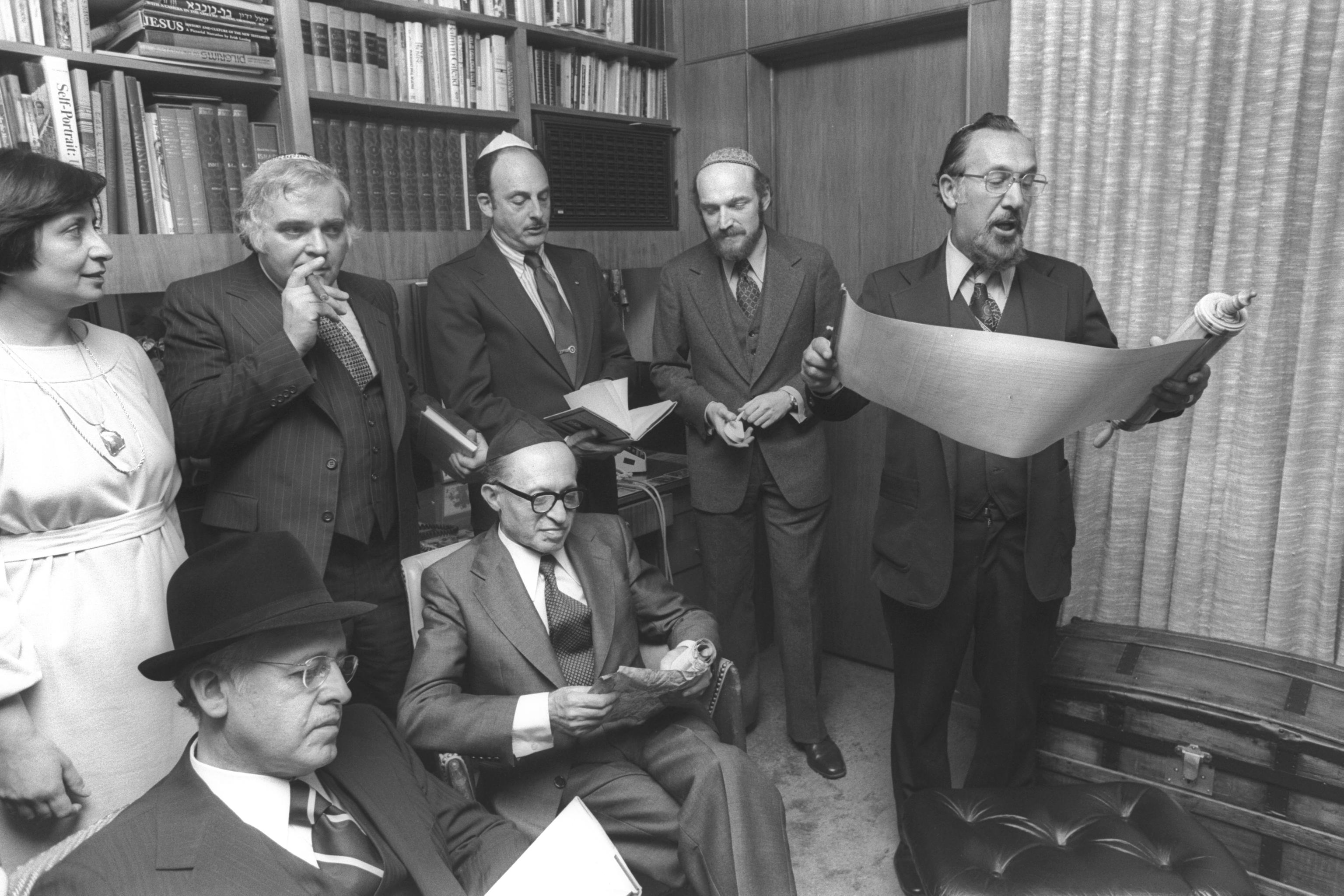 P.M. Menachem Begin (Seated center) Reading the Megilat Esther at the reception hosted by Amb. Simcha Dinitz at his residence in Washington. ביקור ראש הממשלה מנחם בגין בארהב. בצילום, בגין קורא את מגילת אסתר בקבלת הפנים שערך שגריר ישראל שמחה דיניץ בביתו בוושינגטון. Photo: Moshe Milner (1946–) Alternative names Miylner, Moše; Milner, Mosheh; Moshé Milner; Milner, M.; Mîlner, Moše; Miylner, MošehDescriptionIsraeli photographerצלם ישראליDate of birth 1946 Location of birth Germany Authority control : Q28750411 VIAF: 100999744 ISNI: 0000 0001 0804 0507 LCCN: n82072104 GND: 115699732 BNF: 15548788n WorldCat creator QS:P170,Q28750411 , 03/22/1978